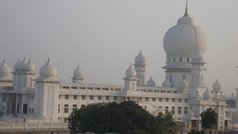 Amazing Architecture